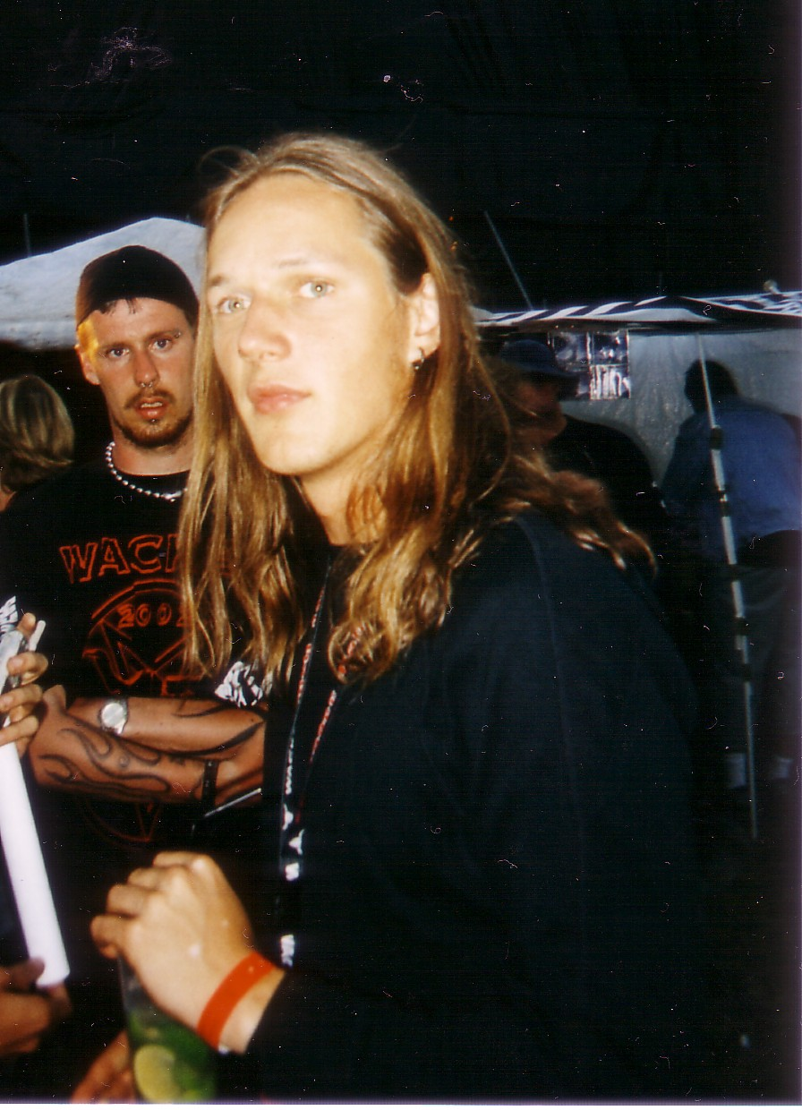 Hennka T. Blacksmith, Children of Bodom